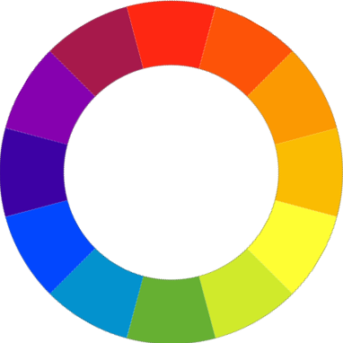 RYB colourwheel (painting)